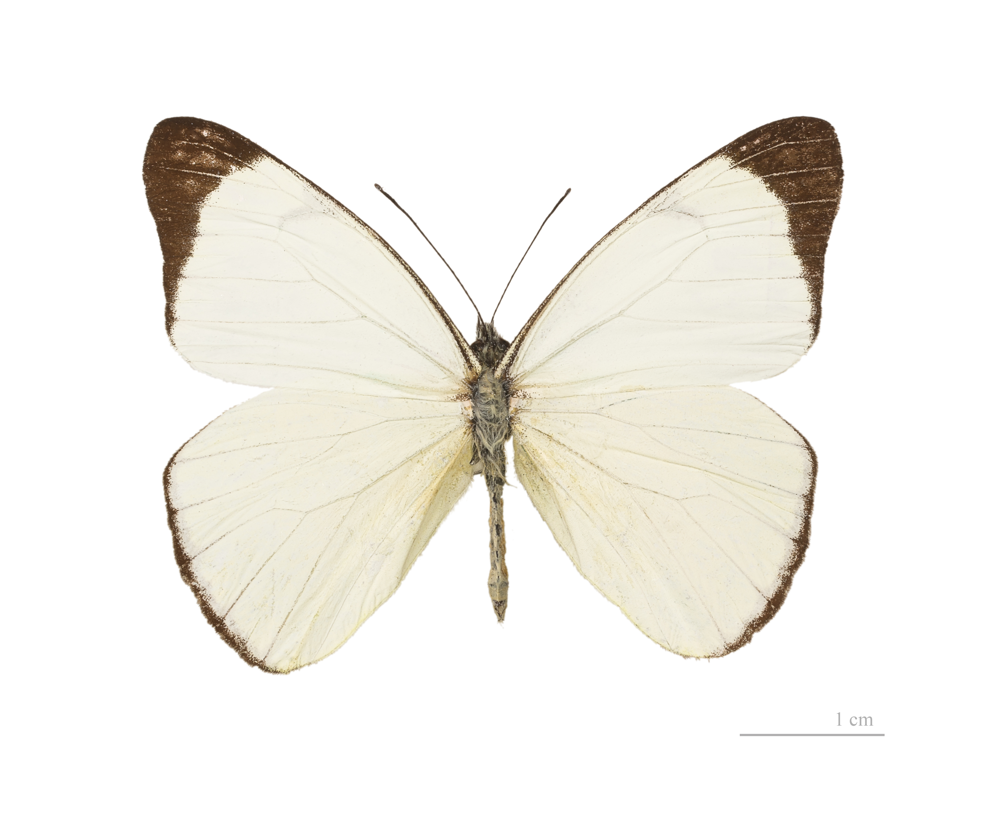 ♂ - Dorsal side Locality : Amazonas Region, North of Peru.